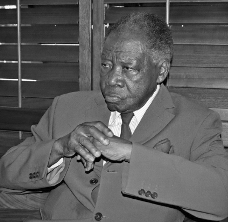 Picture of K.B. Asante